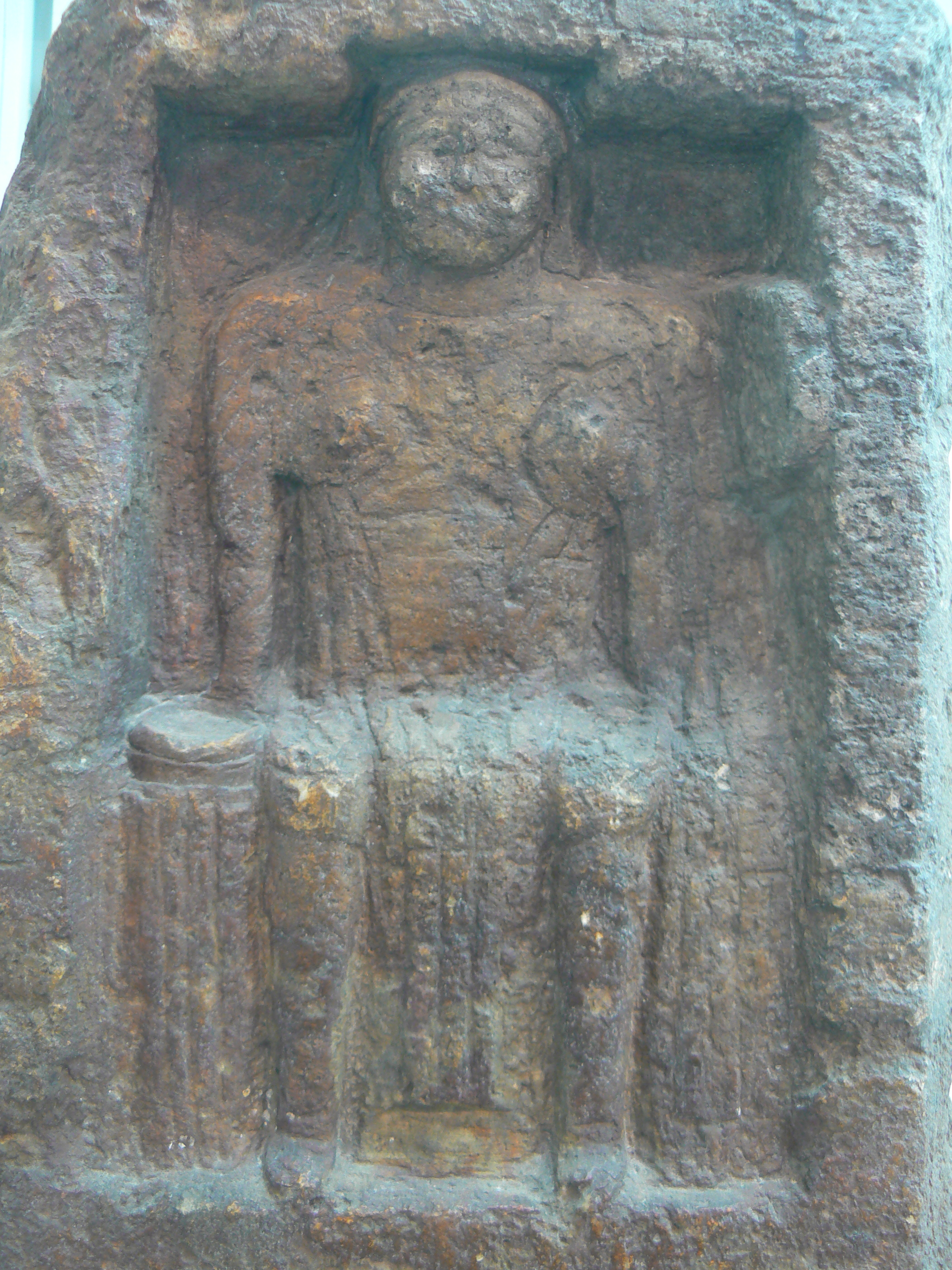 Basrelief of Cybele, found in Apolonia, end of 6 century BC. Burgas Archeology Meseum